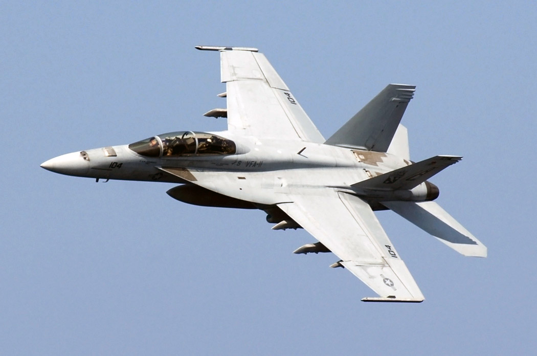 FIFTH FLEET AREA OF RESPONSIBILITY (Dec. 3, 2007) An F/A-18F Super Hornet, from the "Red Rippers" of Strike Fighter Squadron (VFA) 11, makes a sharp turn above the flight deck aboard the Nimitz-class nuclear-powered aircraft carrier USS Harry S. Truman (CVN 75). Truman and embarked Carrier Air Wing (CVW) 3 are underway on a regular scheduled deployment in support of maritime security operations U.S. Navy photo by Seaman Kevin T. Murray Jr. (Released)